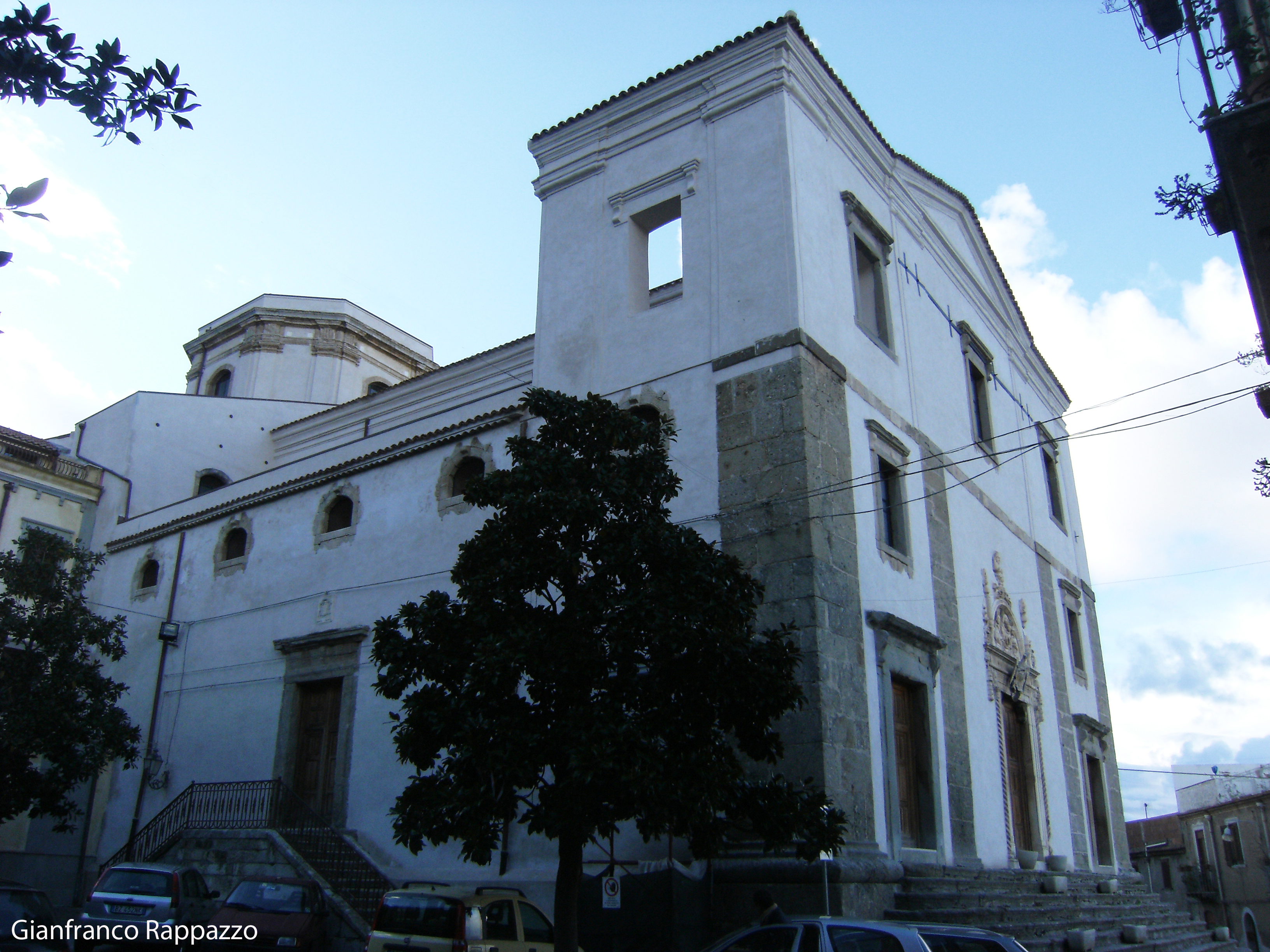 Cathedral Basilica, Santa Lucia del Mela